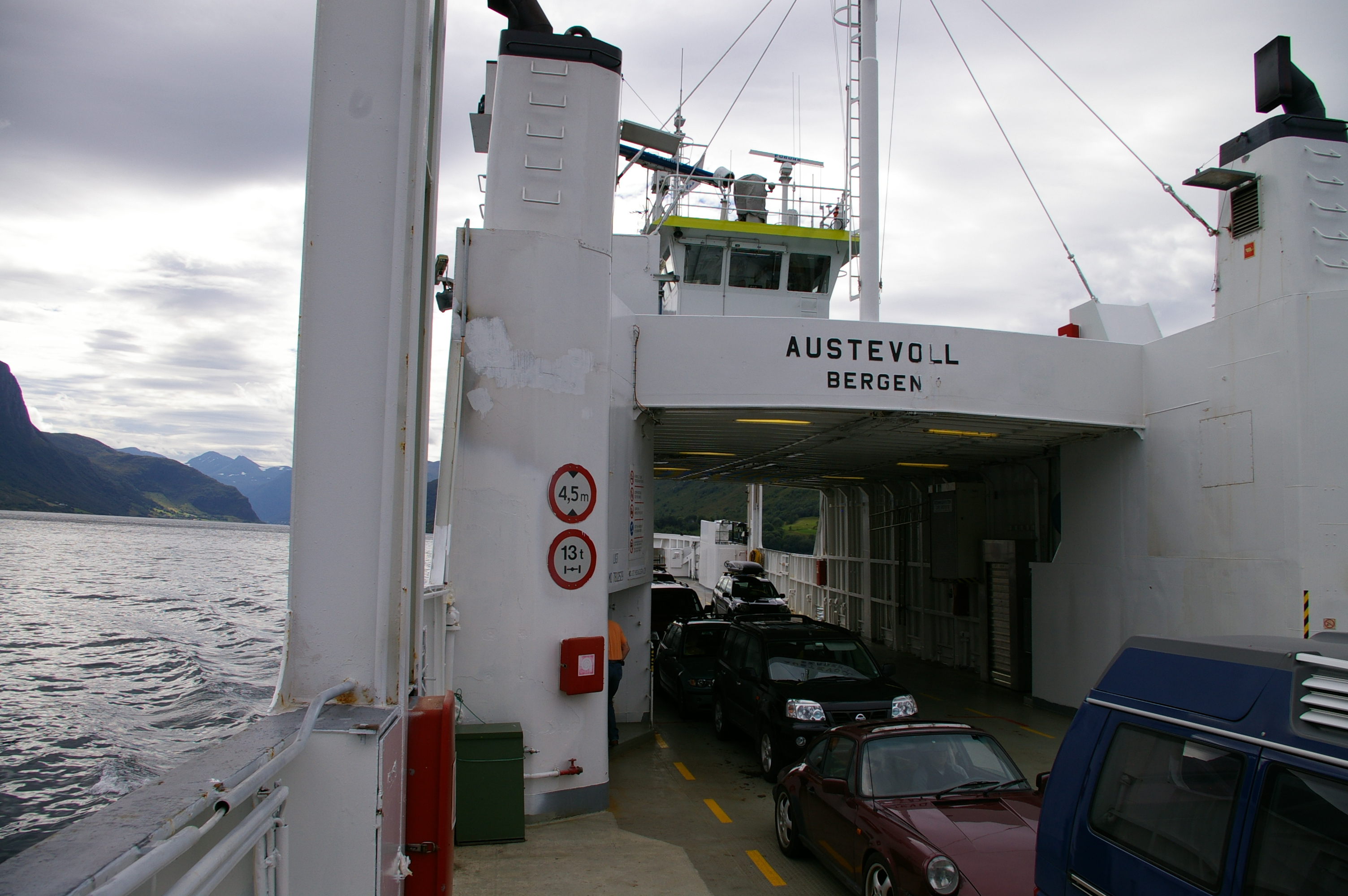 M/F Austevoll in 2008.